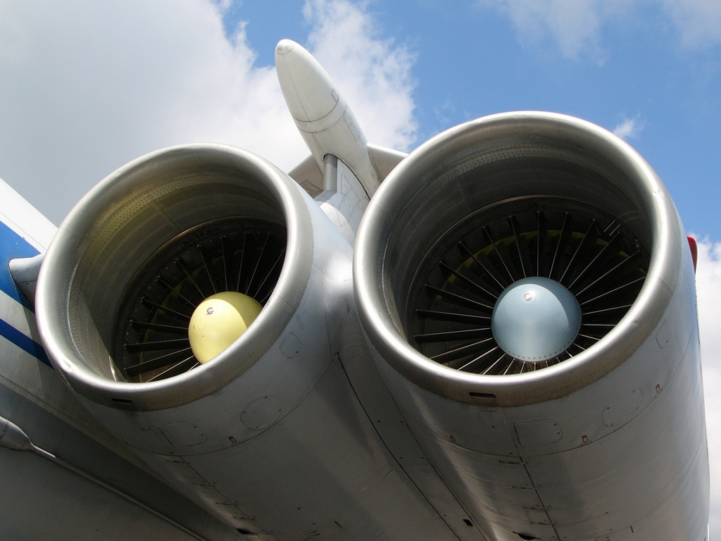 Ex-Tretyakovo Airlines and Orient Avia. D-30KU's engines.